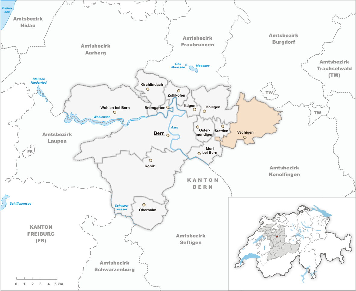 Municipality Vechigen